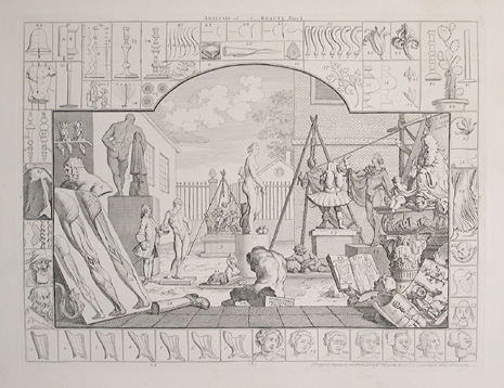 The Analysis of Beauty Plate 1, 37.15 x 49.05 cm.